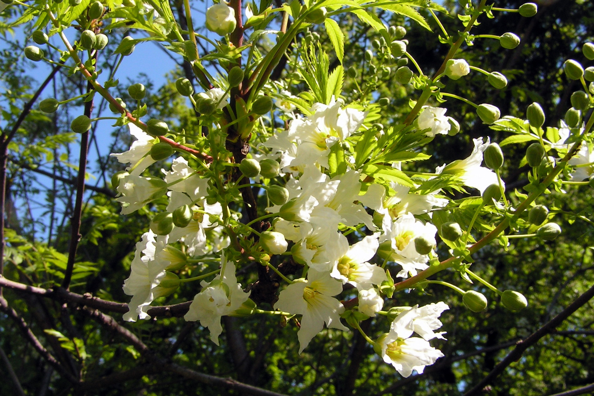 Xanthoceras sorbifolium in the Botanical Garden of the University of Vienna